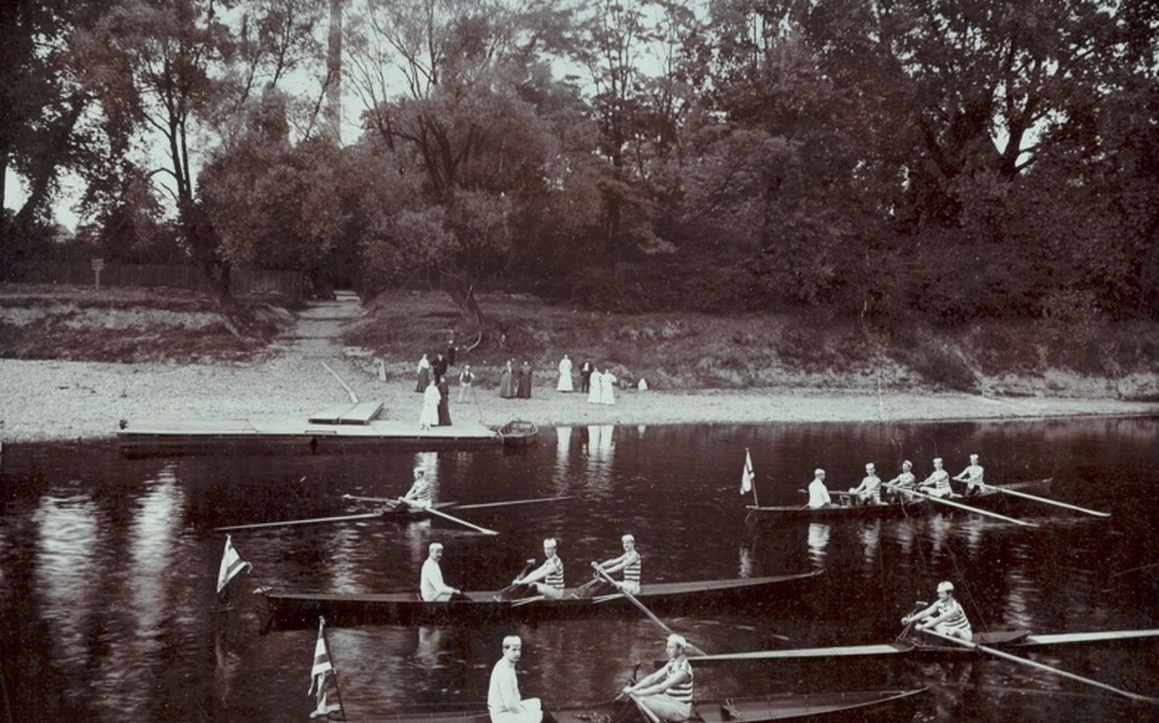 Ruderverein Ratibor na wodzie na Odrze początek XX w